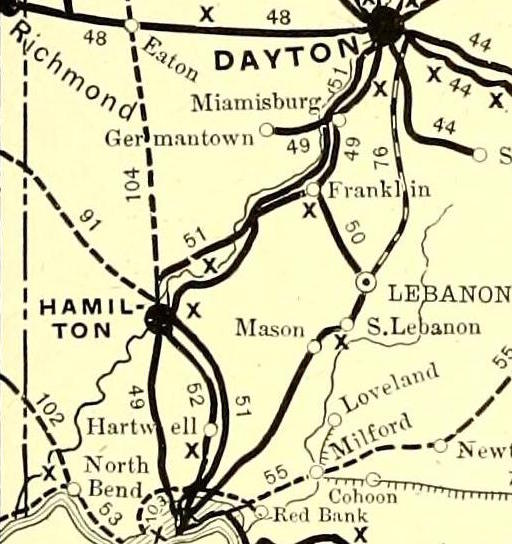 Map showing the extent of the Cincinnati, Dayton and Toledo Traction company in February 1904. The CDT's lines are indicated by the number 49. The main line was from Cincinnati (at bottom center, unlabeled) to Dayton via Hamilton.